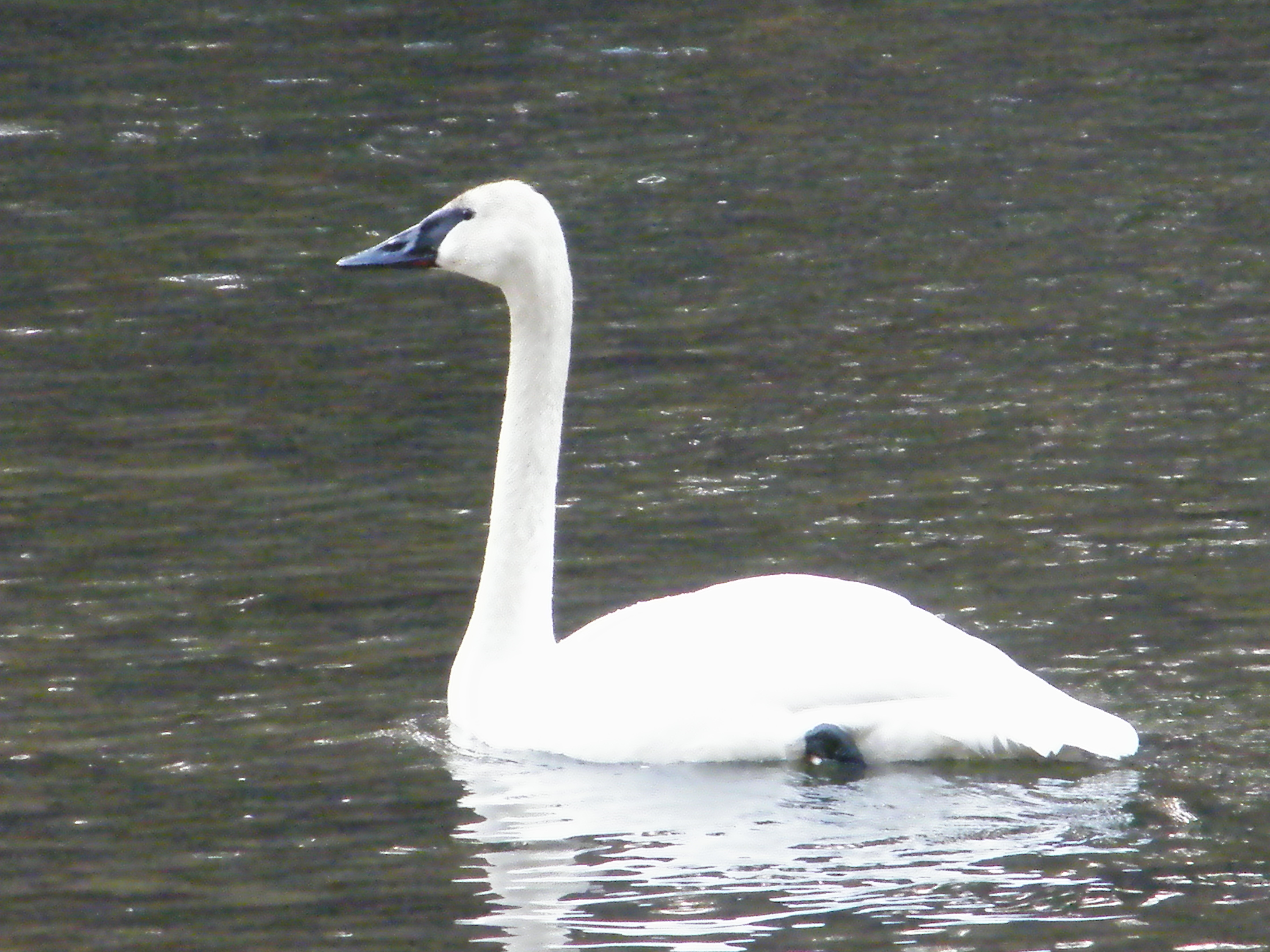 An image of a Trumpeter Swan seen wintering in Parksville, British Columbia (Canada).